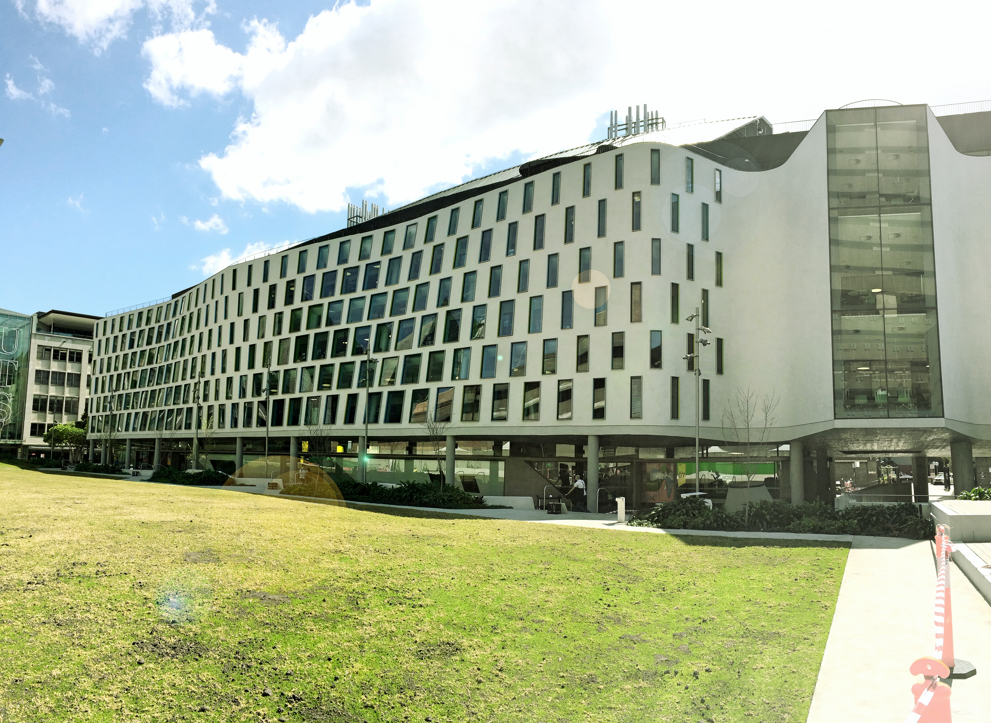 Perspective showing organic form of the Science and Graduate School of Health Building UTS